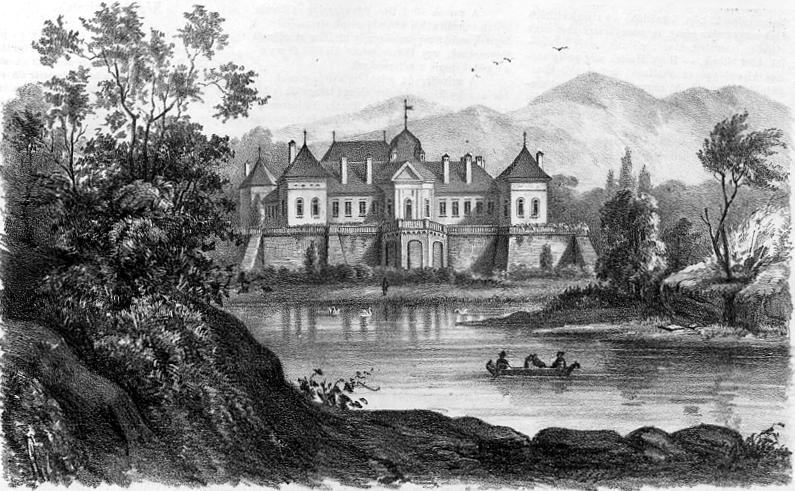 Fehéregyháza, Castle